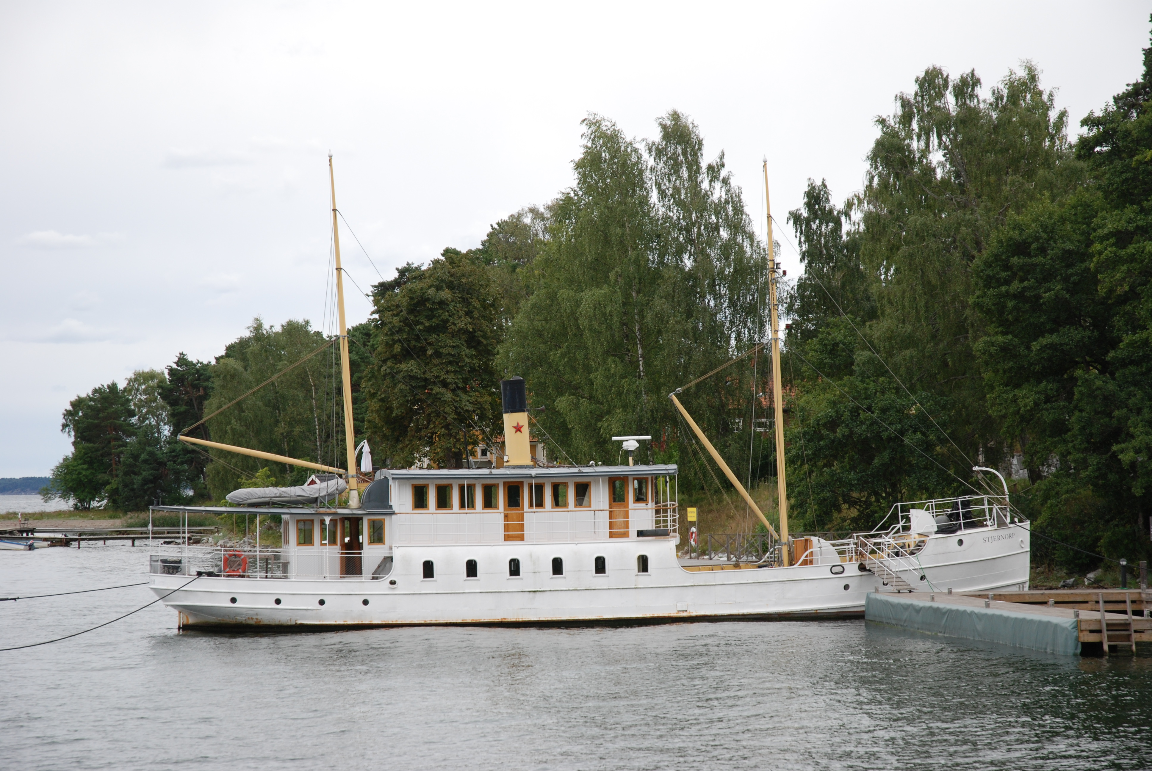 M/S Stjernorp, passenger ship built in Oslo 1870. Moored at Oaxen in the archipelago of Stockholm, Sweden